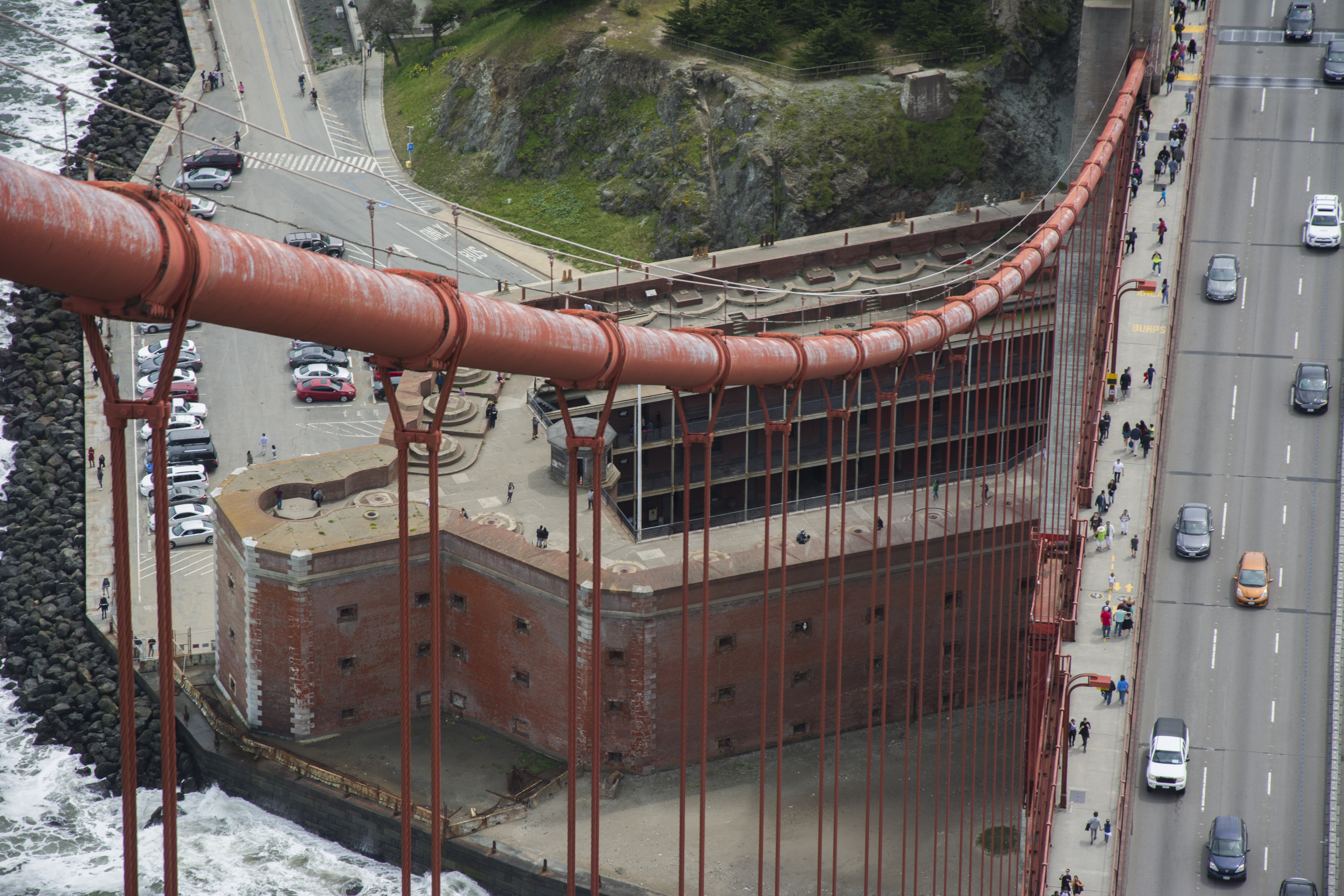 Golden Gate Bridge tower views.